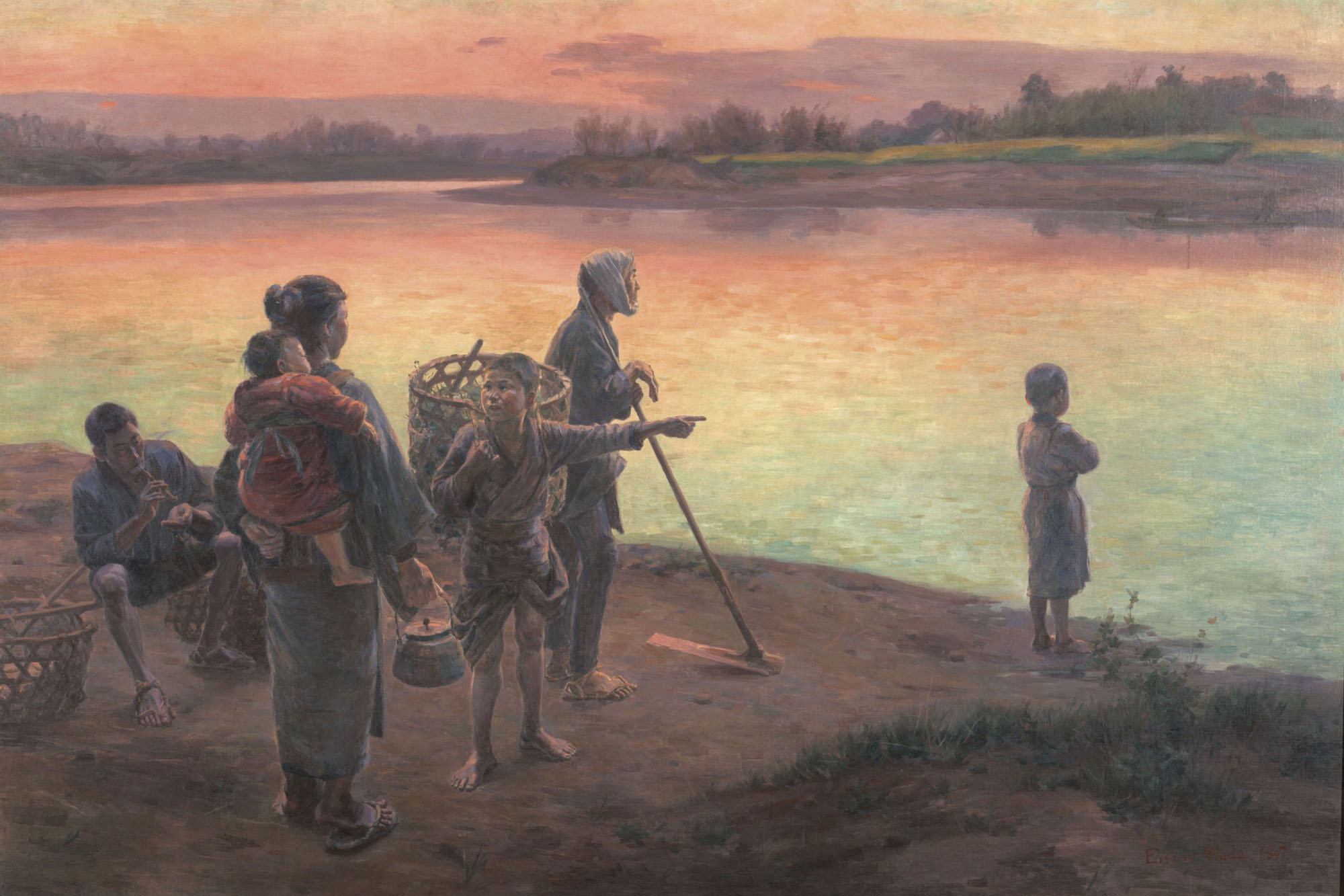 Welcomed as an Assistant Professor at the opening of the Western Painting Department of the Tokyo Fine Arts School (later part of the Tokyo University of the Arts), the artist later decided to resign that position and enroll as a student instead. This was submitted as his graduation work in 1897, when the artist became that Department's first graduate.